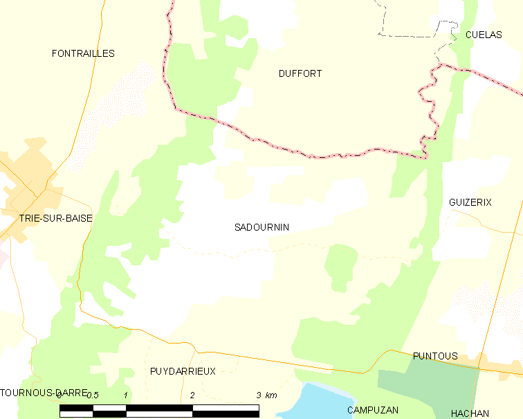 Map of French municipality